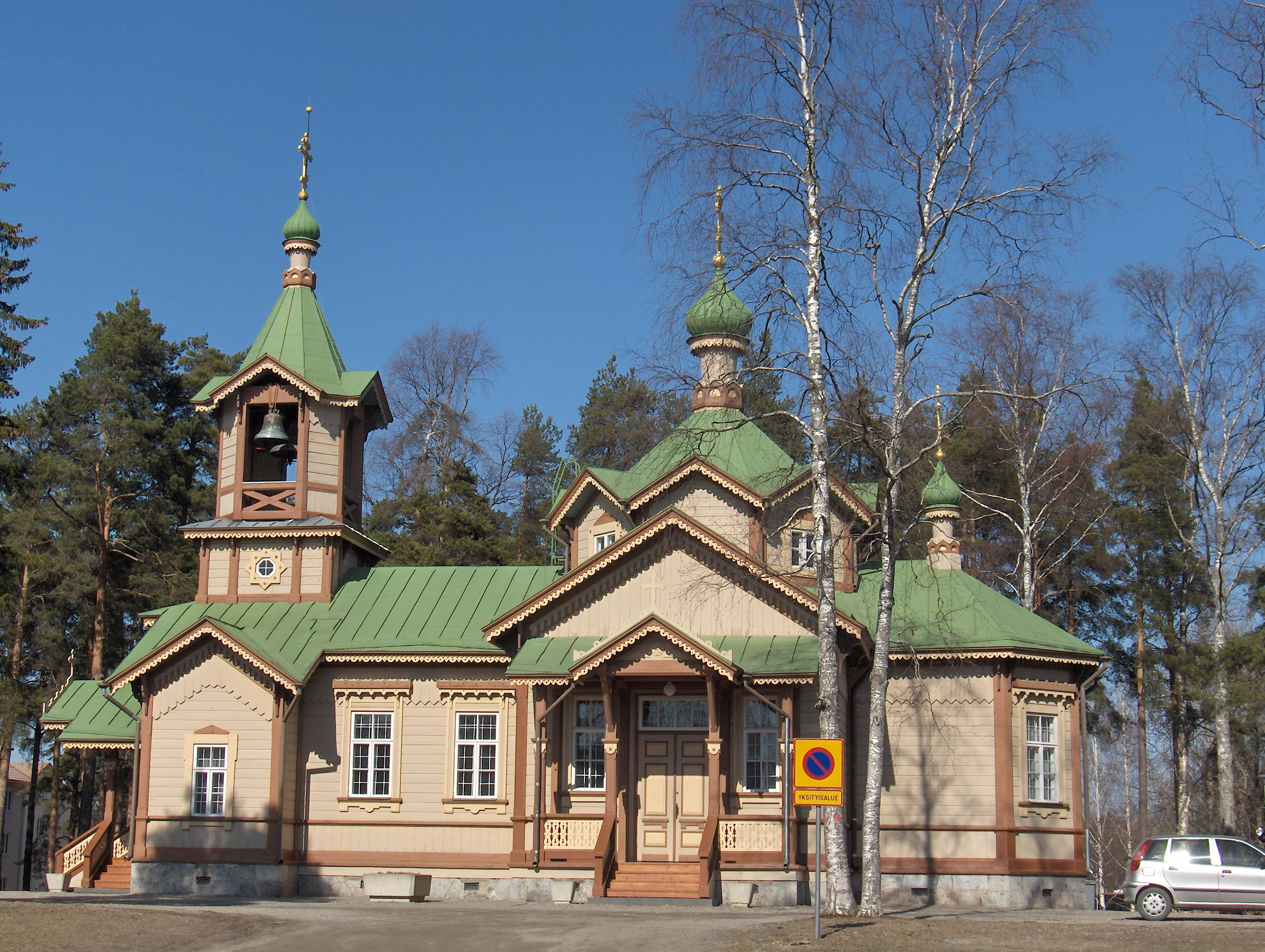 Orthodox Church of Saint Nicholas, Kirkkokatu, Joensuu, Finland